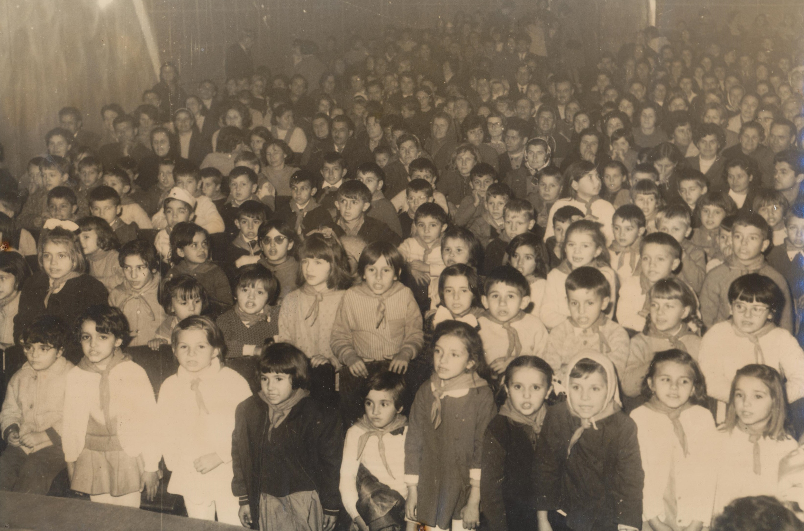 First grade of school Osmi septembar in Pirot in 1962.